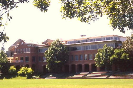 Trinity Grammar School, Sydney